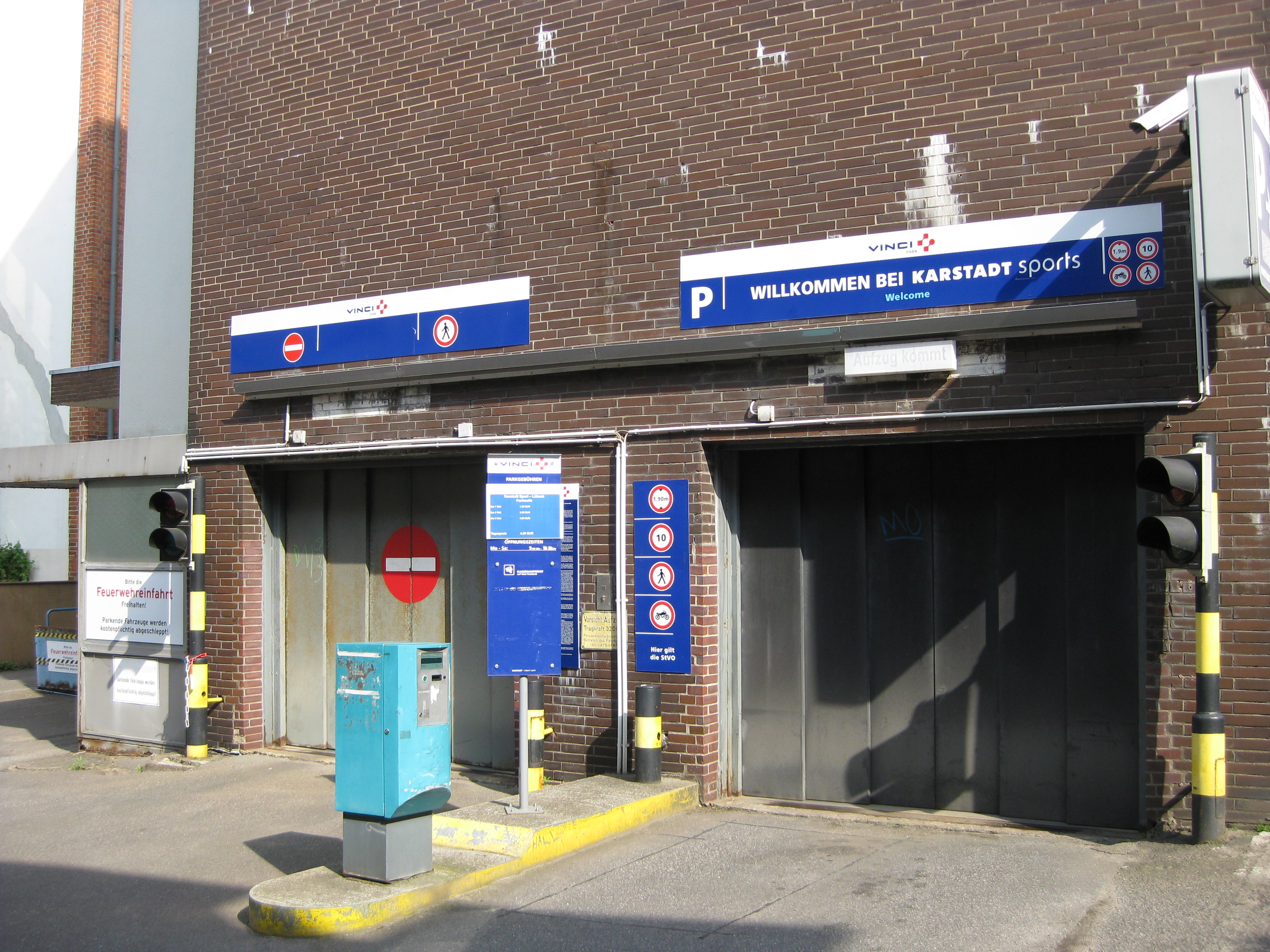 Vehicle lift at the rear side of Karstadt sports in Lübeck, Pagönnienstraße.